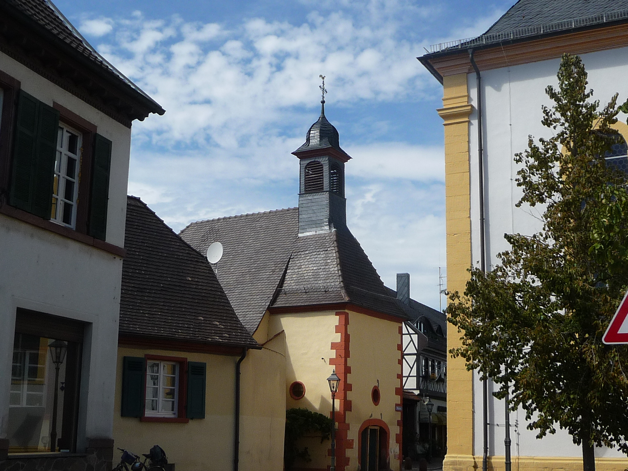 Dirmstein in the Bad Dürkheim district in Rhineland-Palatinate, Germany